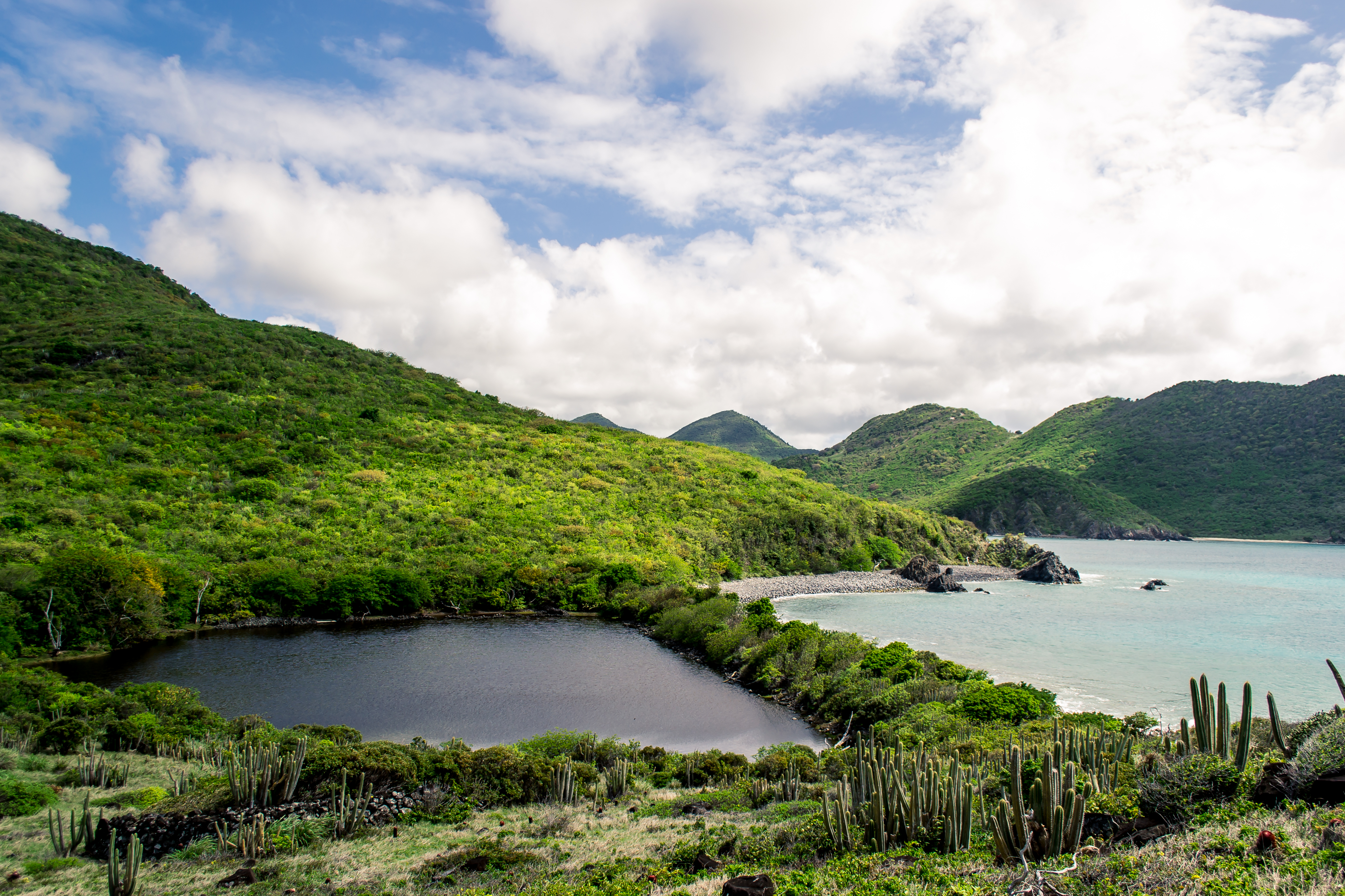 Vue panoramique depuis Cactus Place sur l'Anse Marcel.